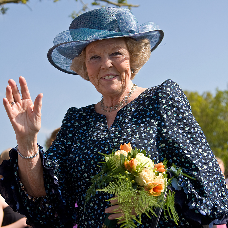 Queen Beatrix of the Netherlands in Vries